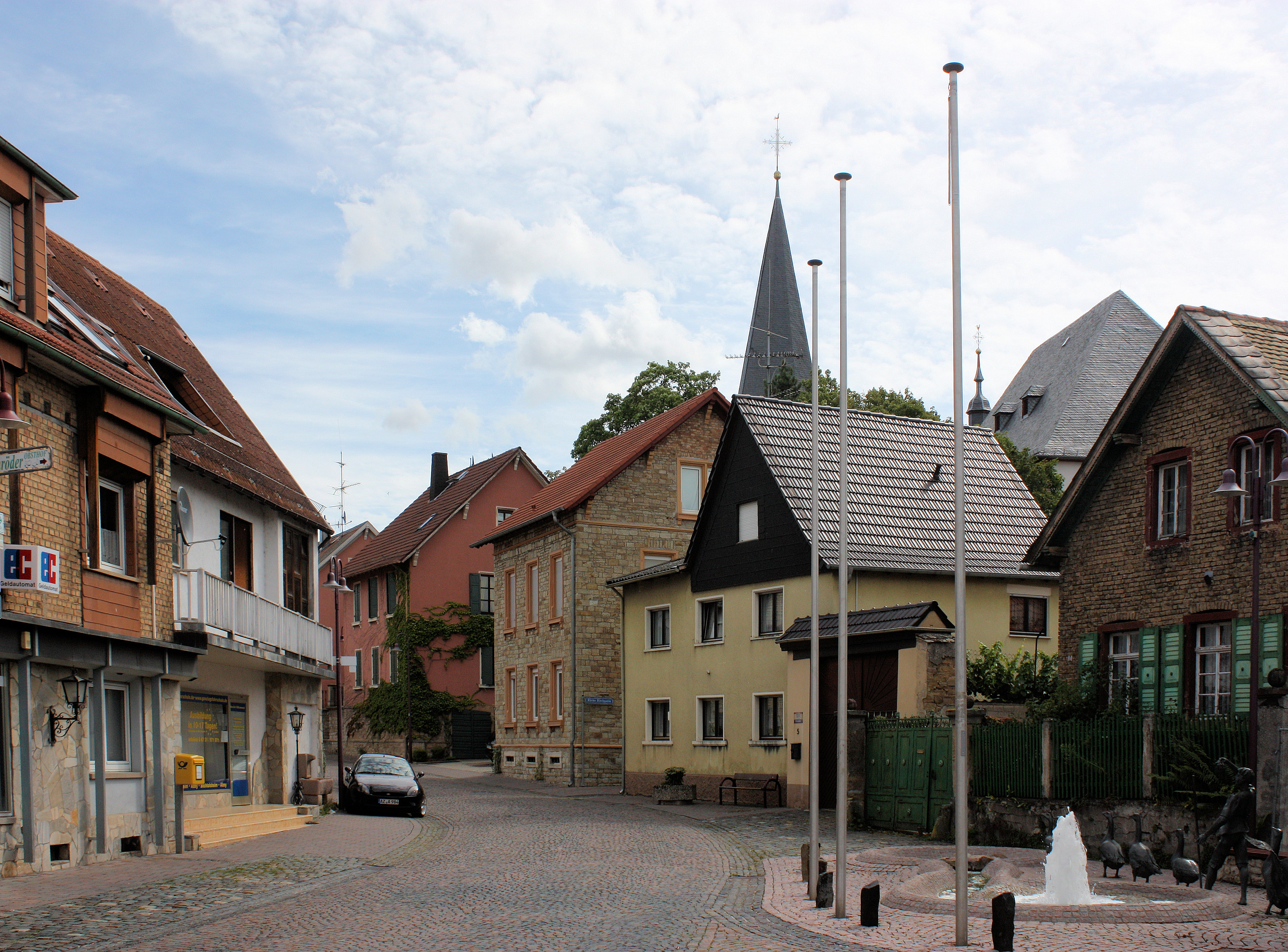 Bechtolsheim, square with the goose well